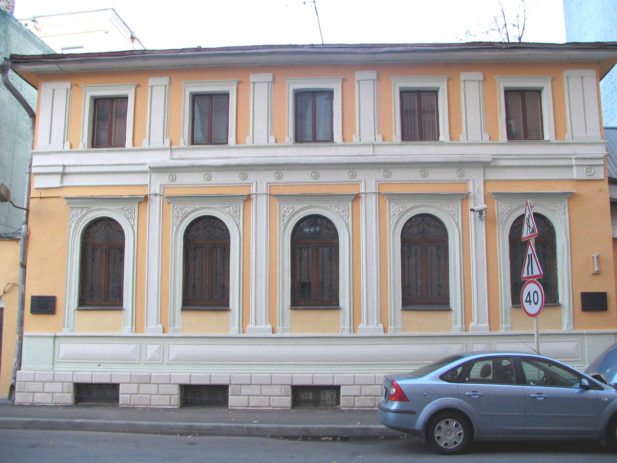 Miliutinsky,8. Moscow. Own house of Afanasy Grigoriev. The architect built it when he was already old, retired from construction practice.